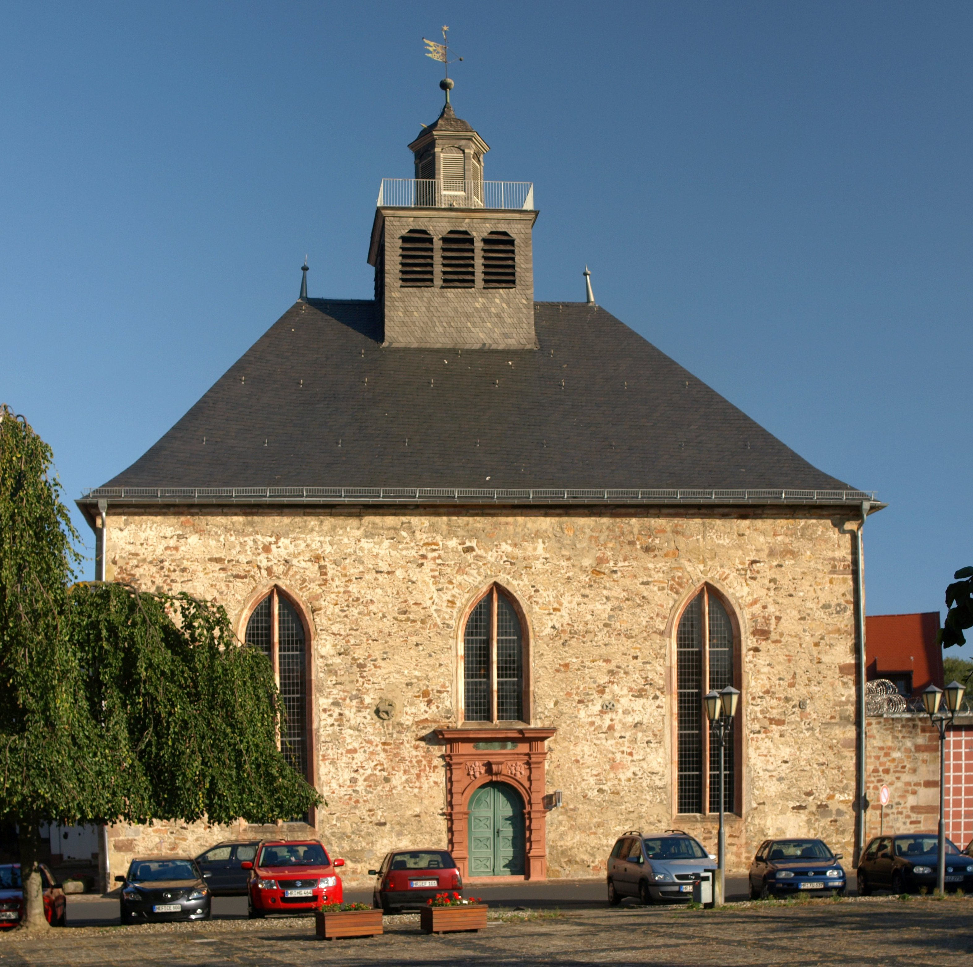 Parish church Ziegenhain